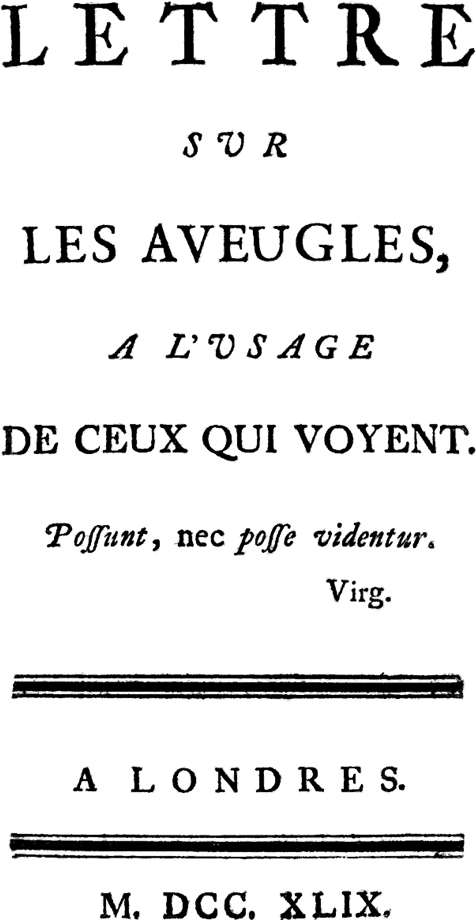 Title page Letter on the Blind by Denis Diderot (1713-1784).